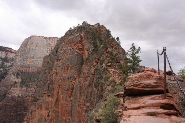 This picture is of Angels Landing in Zion National Park. It was taken by Daniel Smith and is released into Public Domain